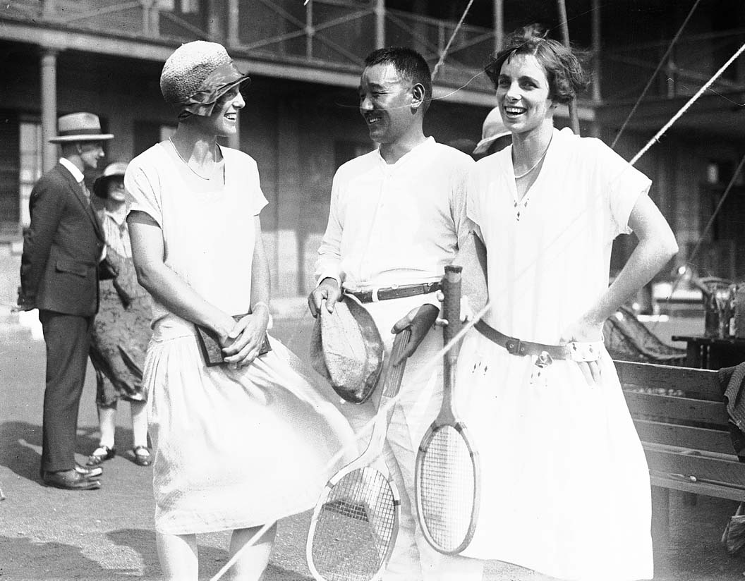 Members of the Imperial Japanese Naval Squadron visited Australia in January 1924 as part of a training cruise. The squadron consisted of the IWATE, ASAMA and YAKUMO. Nearly 2,500 men of which 300 were midshipmen spent time in Sydney, Melbourne, Hobart, Brisbane, Adelaide and Perth during their tour. An unidentified Japanese officer is shown here at Victoria Barracks in Paddington, Sydney with two women during a tennis party. The event was held on the morning of 26 January for the foreign visitors which included Admiral Saito. This photo is part of the Australian National Maritime Museum’s Samuel J. Hood Studio collection. Sam Hood (1872-1953) was a Sydney photographer with a passion for ships. His 60-year career spanned the romantic age of sail and two world wars. The photos in the collection were taken mainly in Sydney and Newcastle during the first half of the 20th century. The ANMM undertakes research and accepts public comments that enhance the information we hold about images in our collection. This record has been updated accordingly. Photographer: Samuel J. Hood Studio Collection Object no. 00034696 Check out our blog on naval visits to Sydney bit.ly/MTtR5H